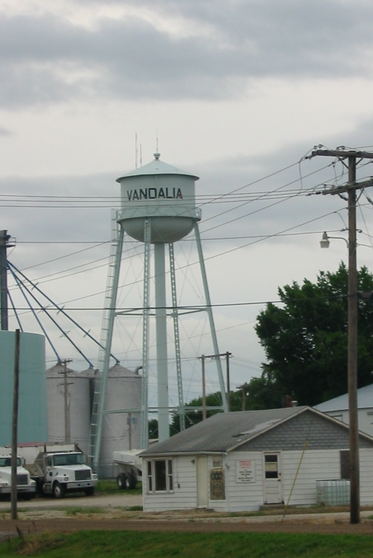 Water Tower in Vandalia, Missouri